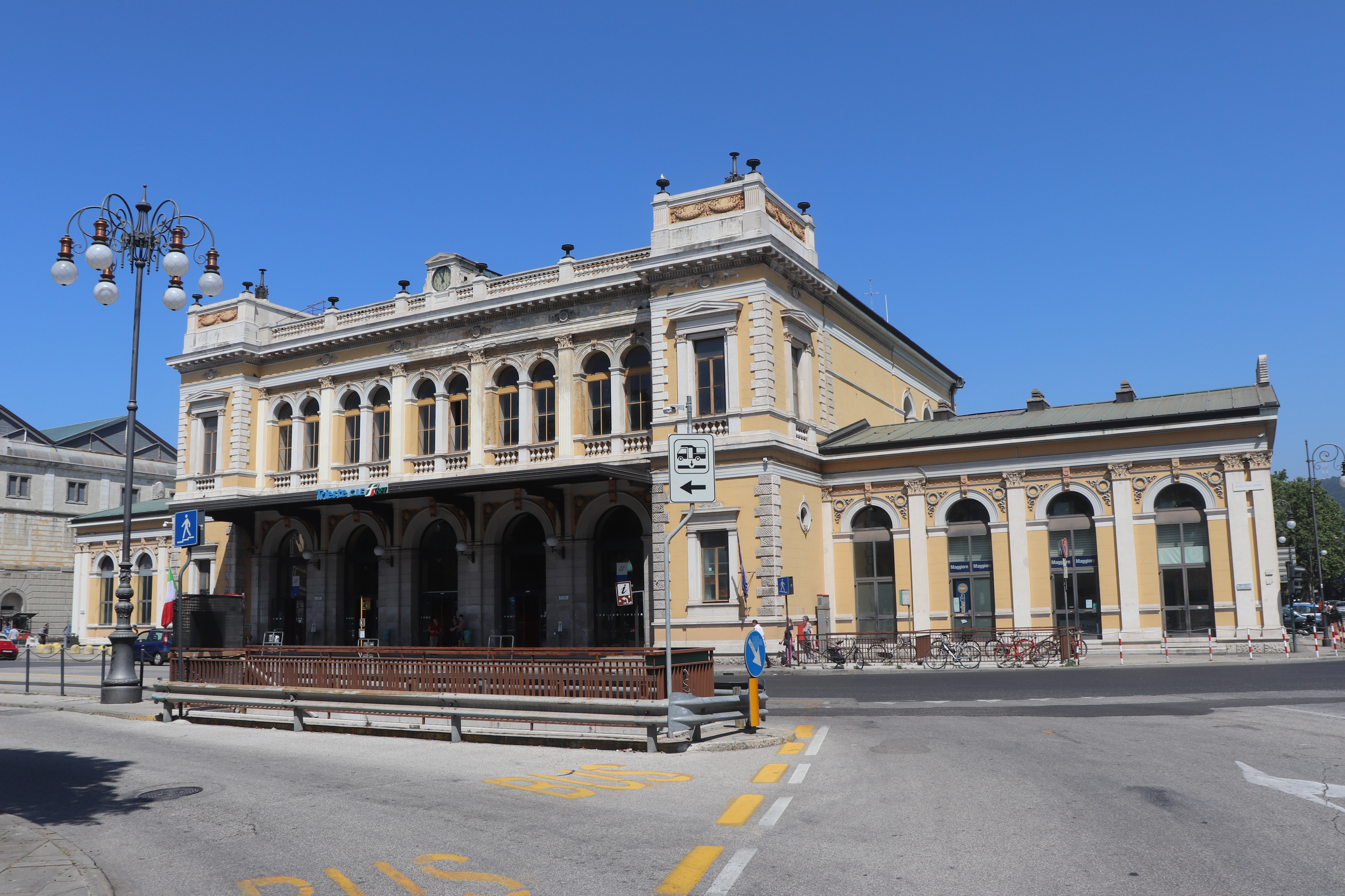 Trieste - railway station building